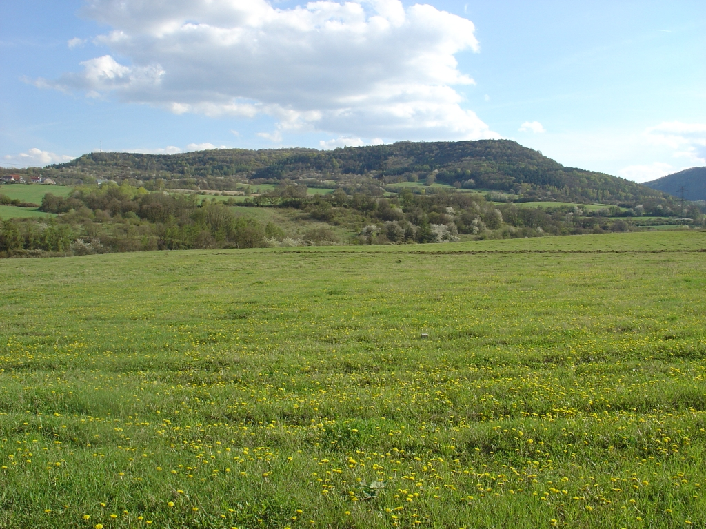 Úhošť hill near Kadaň